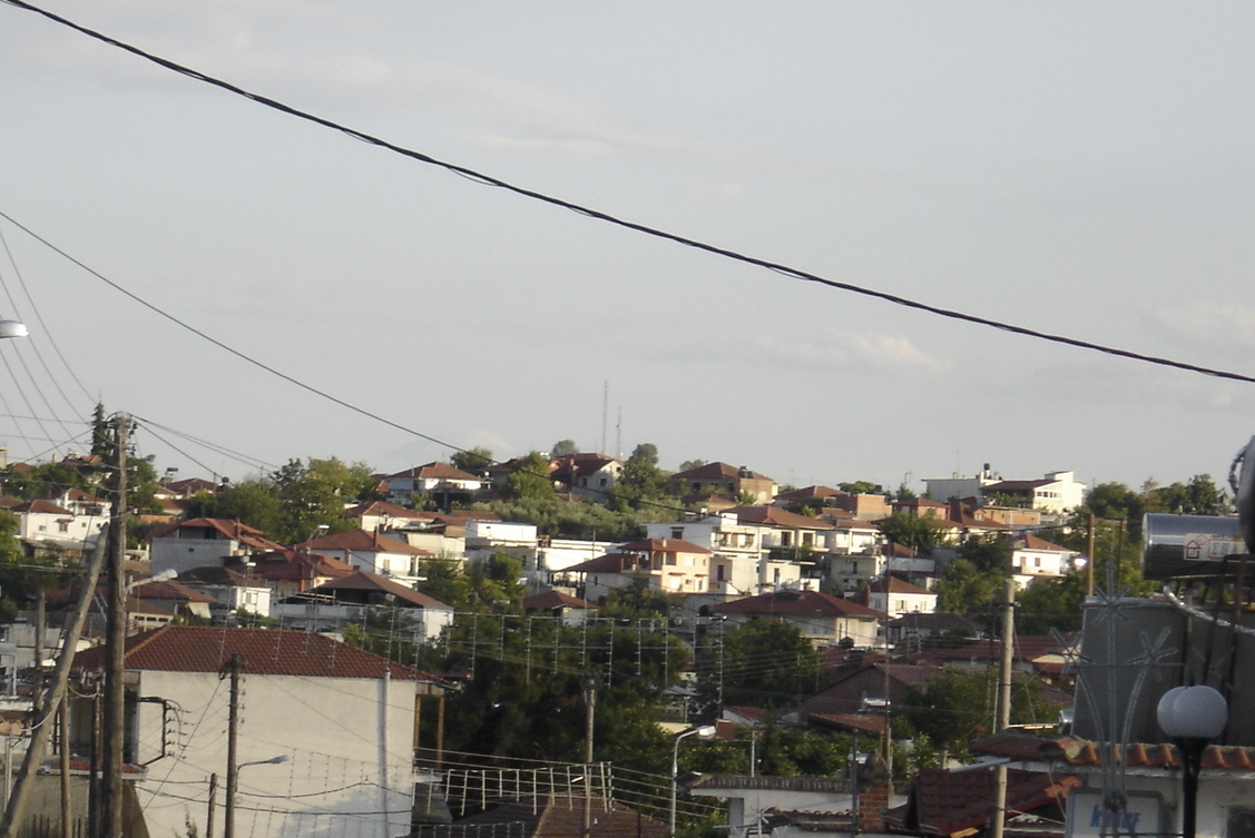 View from Eginion.